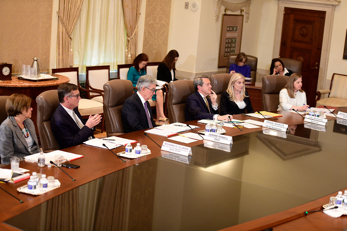 The Board of Governors discuss proposal to revise the Board's control rules. Meeting Materials